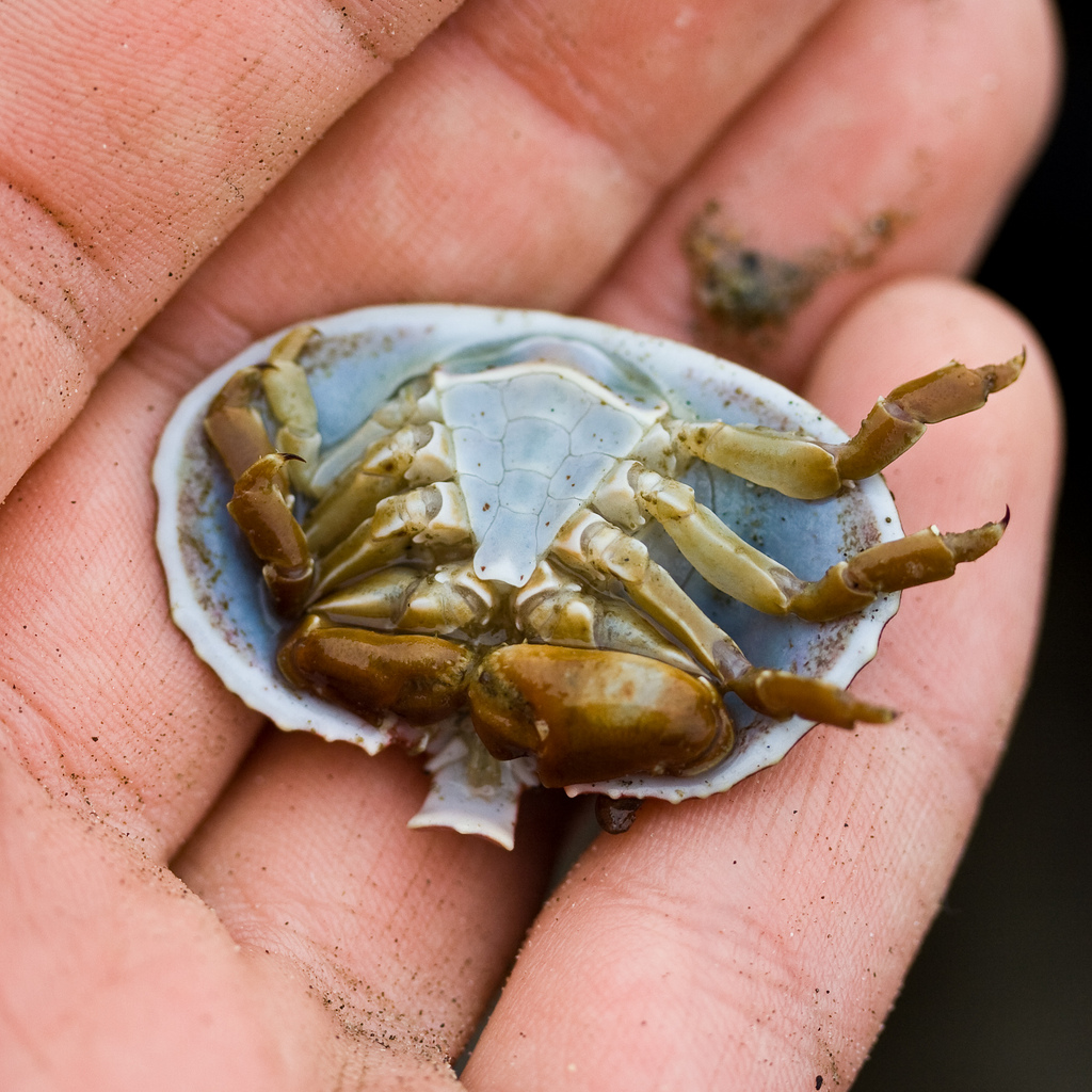 The underside of an Umbrella Crab (Cryptolithodes sitchensis